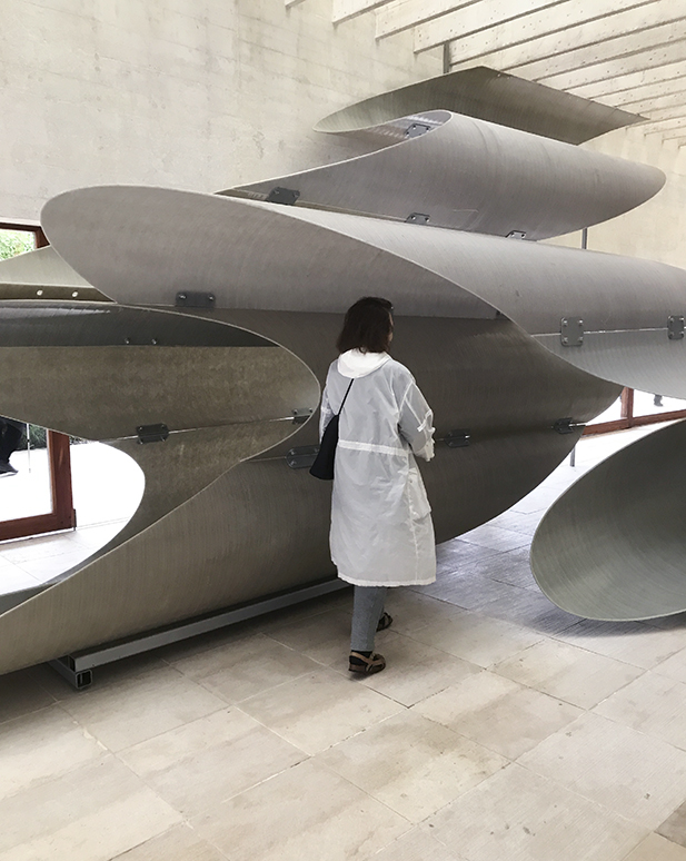 Siri Aurdal into ONDA VOLANTE 2017. Venice Biennale. Nordic Pavillion. Photo: Mats Stjernstedt